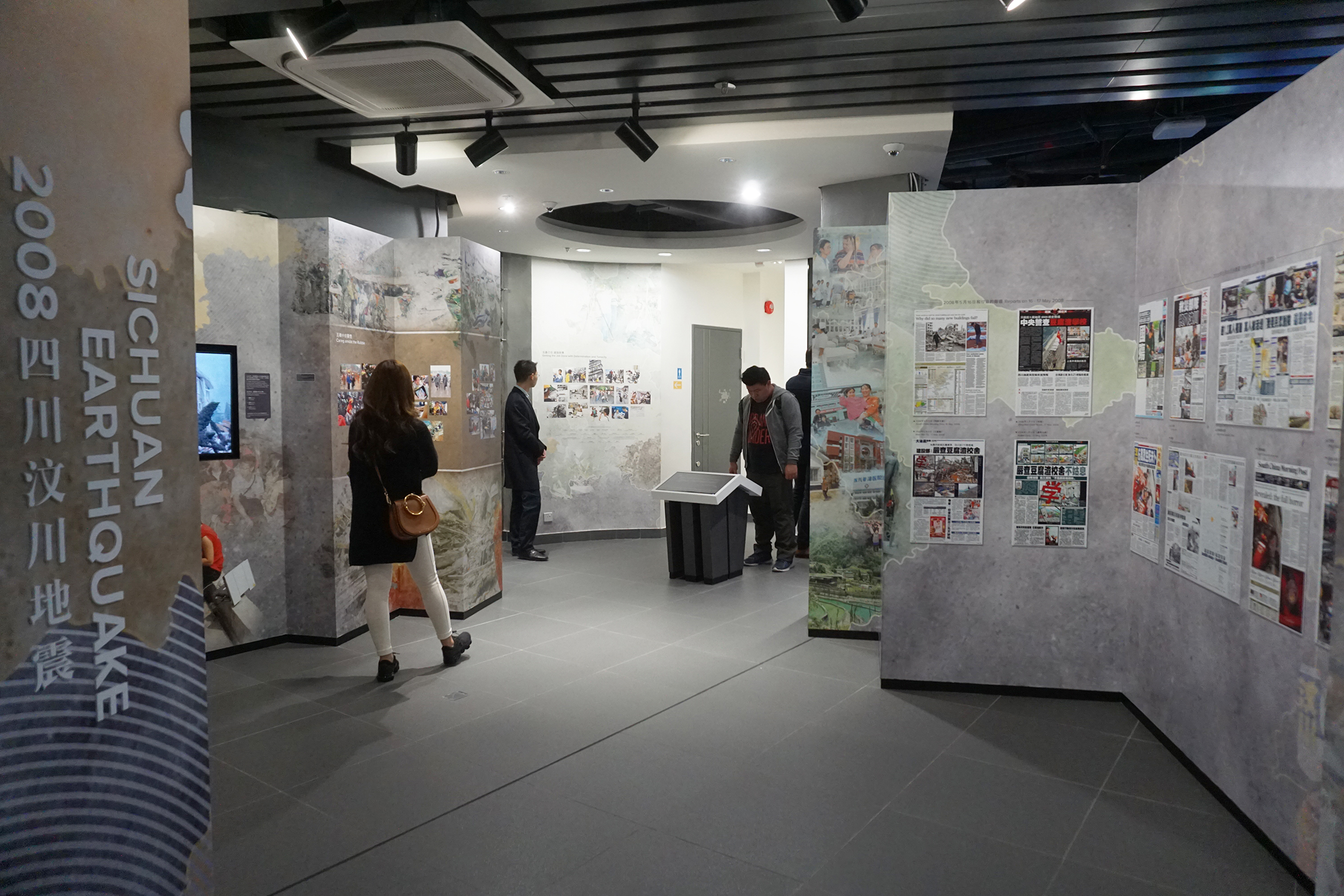 Hong Kong News-Expo in Central, Hong Kong.